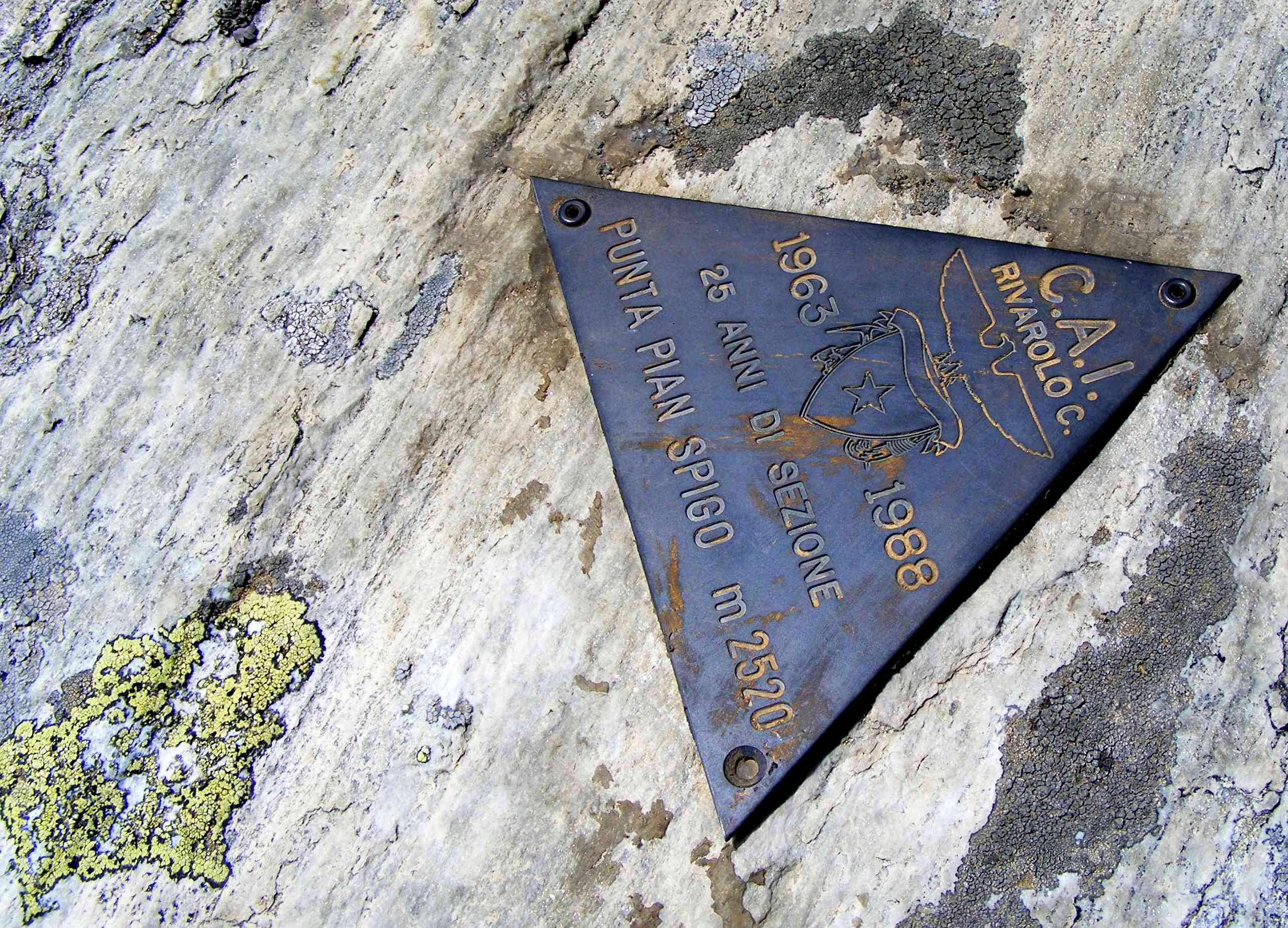 Punta di Pian Spigo (Graian Alps, TO, Italy): metal plaque on the top